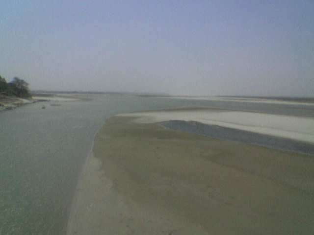 Picture of Sarayu River taken from bridge near Ayodhya by my mobile camera during my visit to Ayodhya town